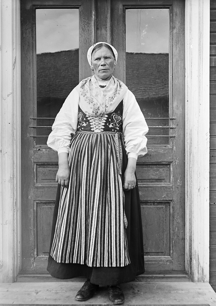 Greta Persson, 66 years old, dressed in a traditional costume. Wife of the yeoman farmer Ollas Per Persson in Almo, Dalecarlia. Greta Persson, 66 år, i folkdräkt. Hustru till hemmansägaren Ollas Per Persson i Almo. Parish (socken): Siljansnäs Province (landskap): Dalarna Municipality (kommun): Leksand County (län): Dalarna Photograph by: Einar Erici Date: 1935 Format: Glass plate negative Persistent URL: Read more about the photo database (in english)